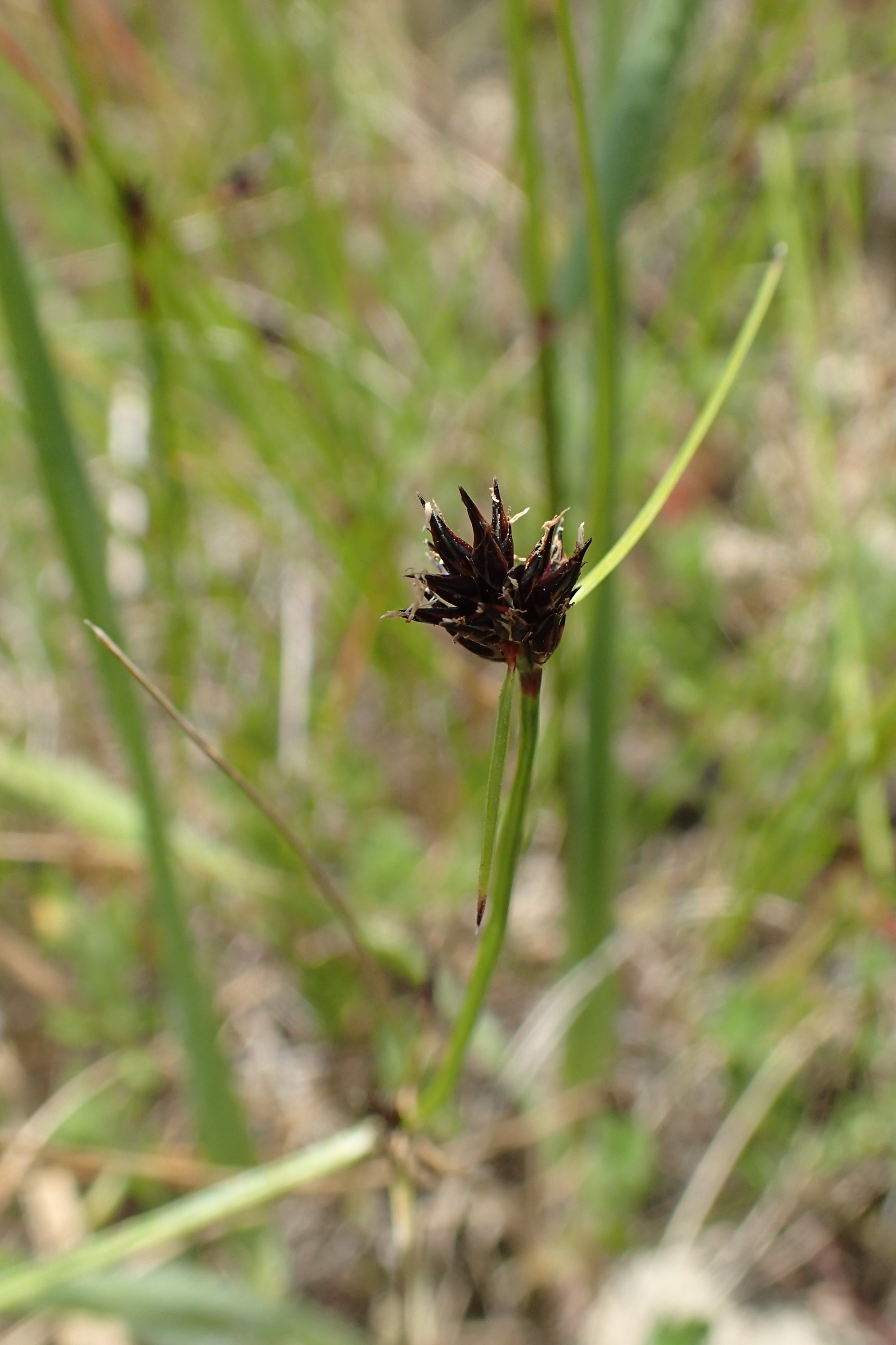 Schoenus apogon in Eastwoodhill Arboretum (NZ)